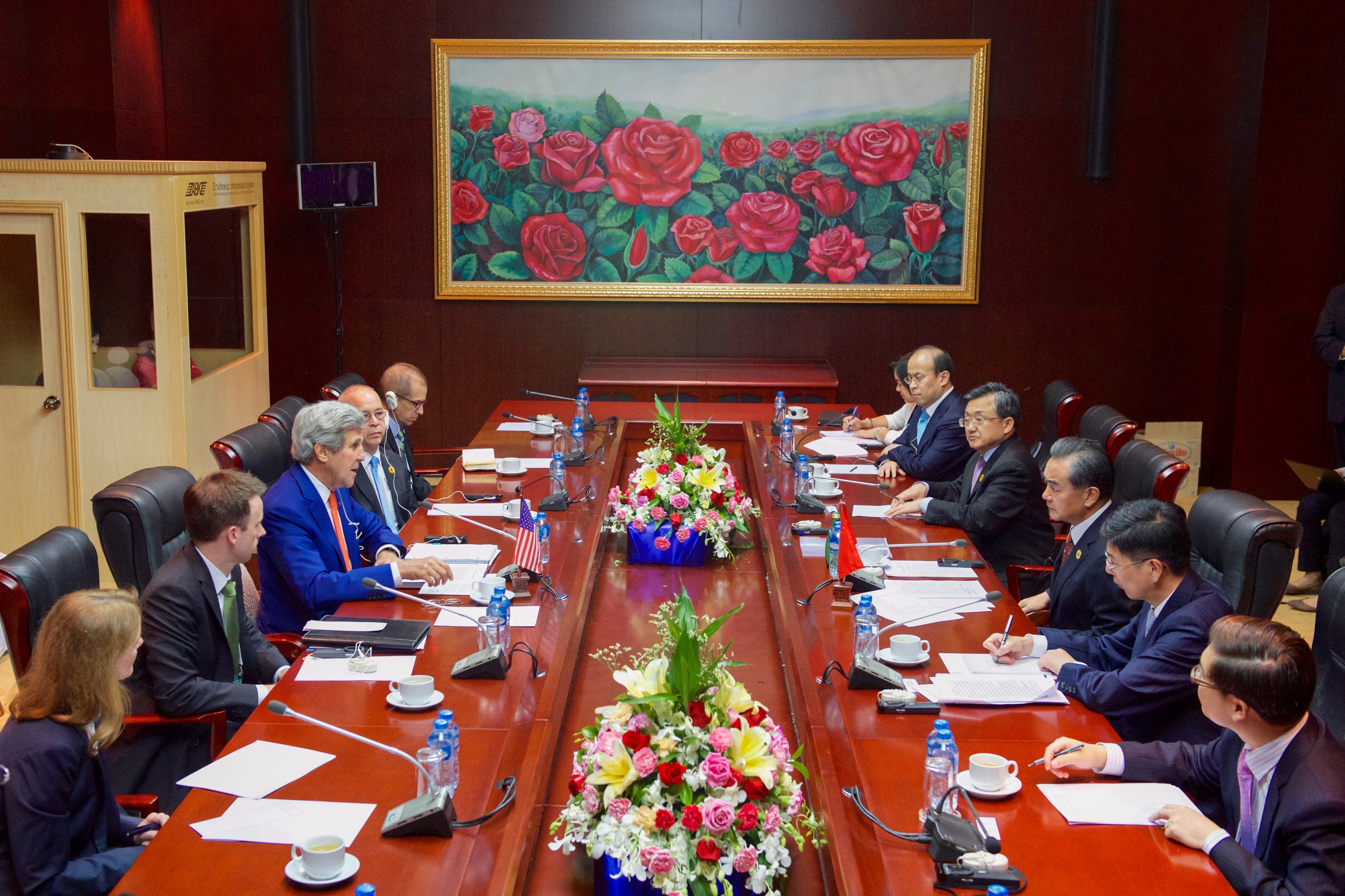 U.S. Secretary of State John Kerry addresses Chinese Foreign Minister Wang Yi and his delegation at the National Convention Center in Vientiane, Laos, on July 25, 2016, during the outset of a bilateral meeting on the sidelines the annual meeting of the Association of Southeast Asian Nations (ASEAN). [State Department/ Public Domain]